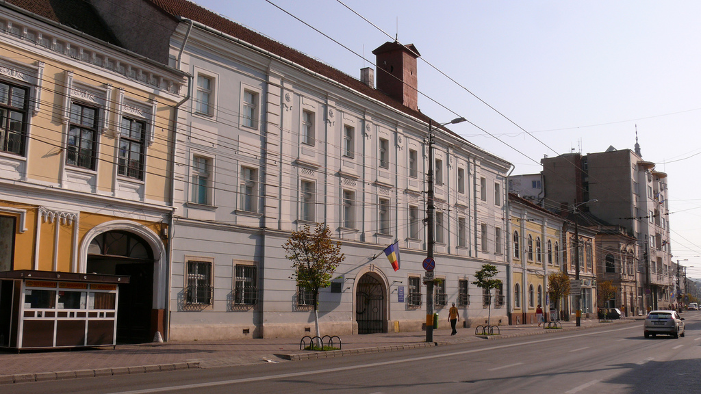 The Ethnographical Museum of Cluj-Napoca (blue building). In this building (then called "Redoubt") the trial of 14 leaders of the Romanian National Party, charged with disturbance of peace and high treason for drafting and publishing the Transylvanian Memorandum, took place between 7 May and 27 May 1894